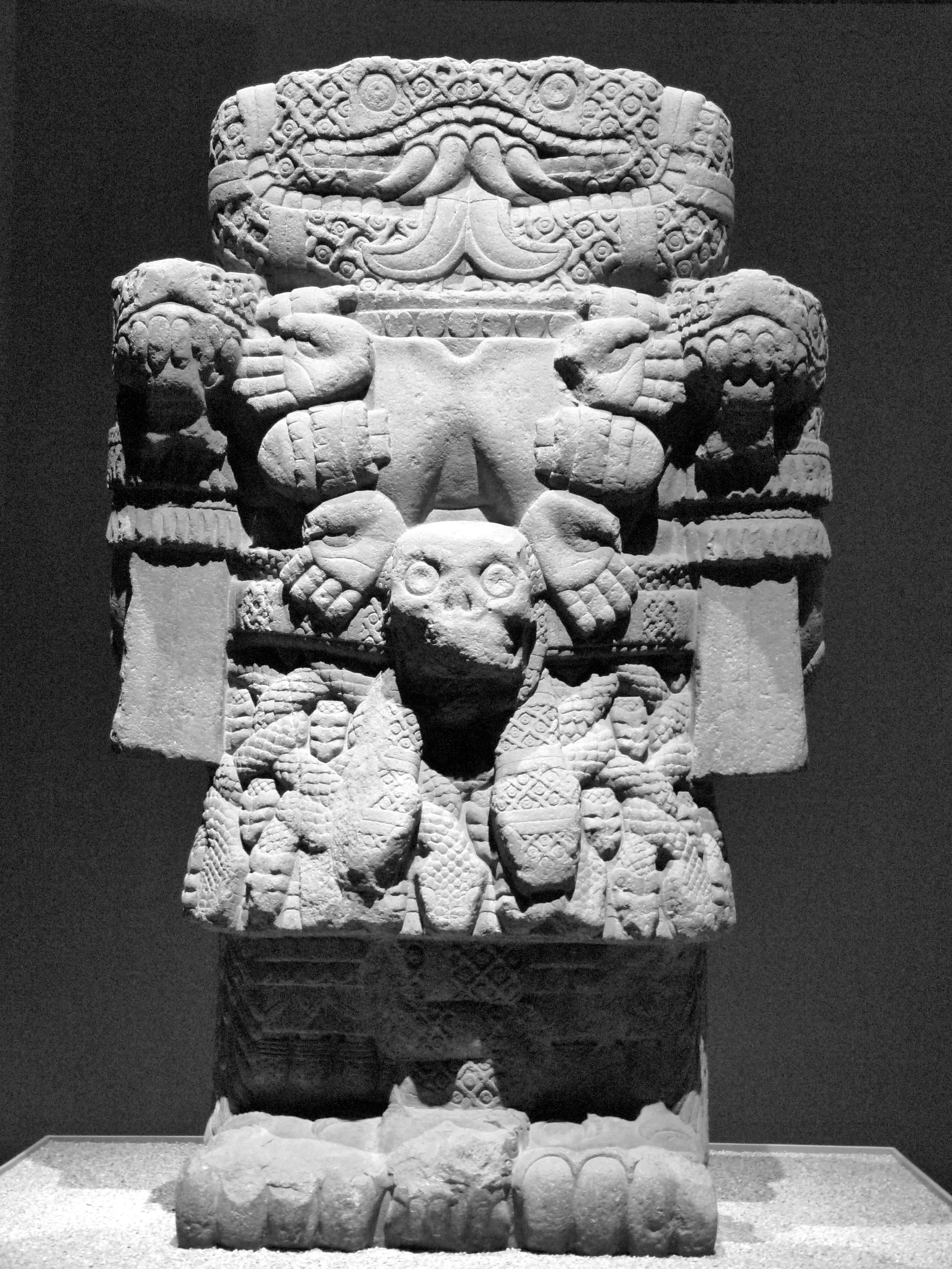 Monolith of Coatlicue (National Museum of Anthropology and History in Mexico City), full-face.